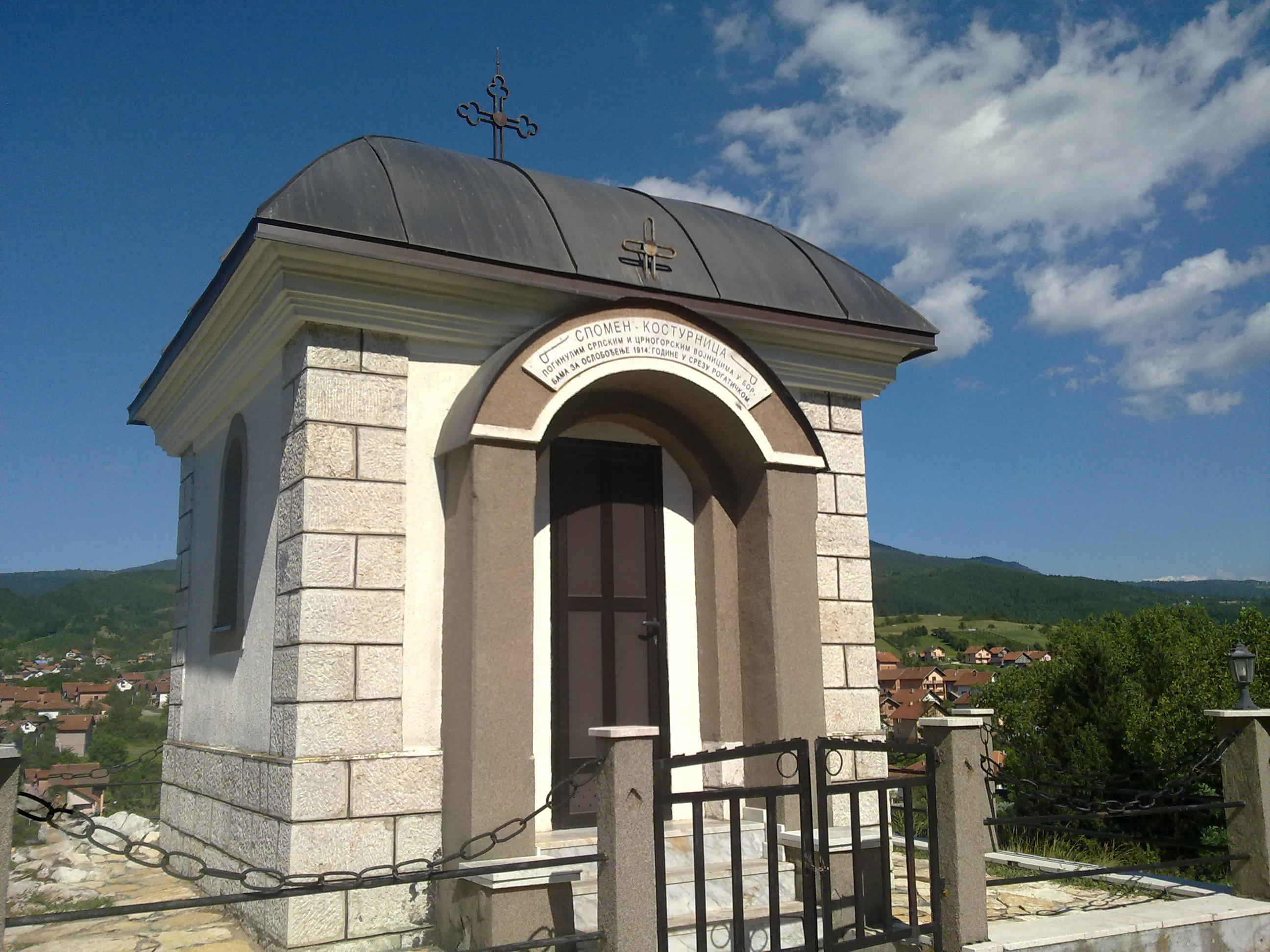 Memorial Ossuary for Serbian soldiers fallen during WWI